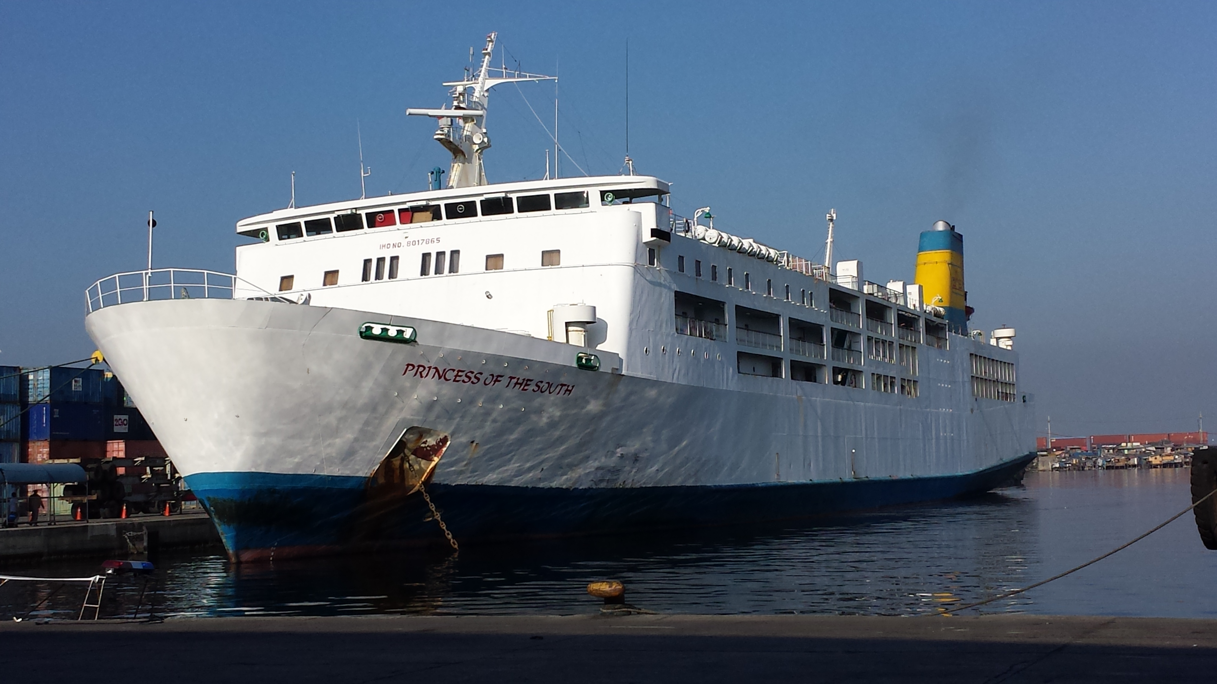 MV Princess of the South docked at Pier 4 in Manila, Philippines.